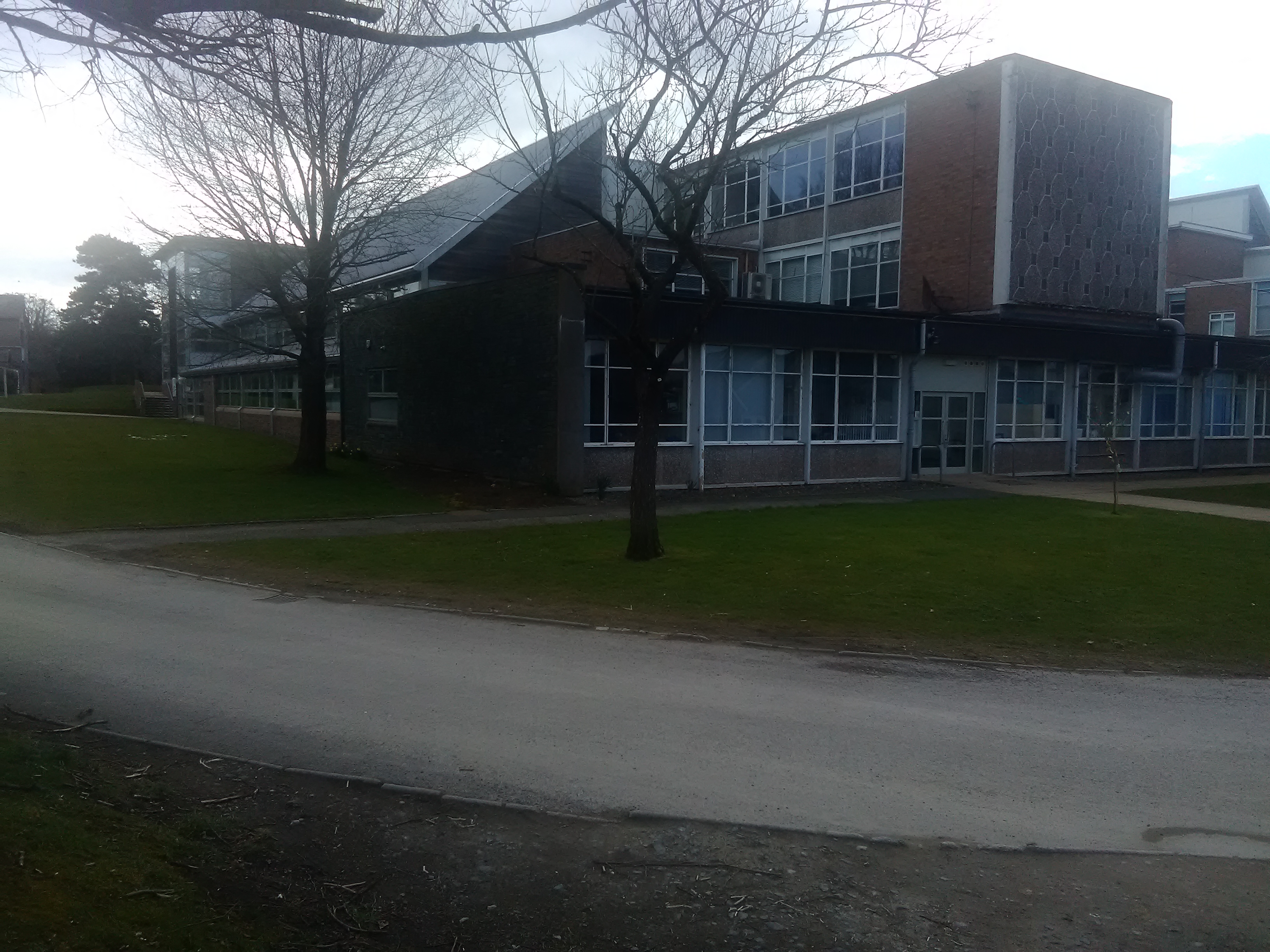 Brompton Road Campus, University of Cumbria, Carlisle